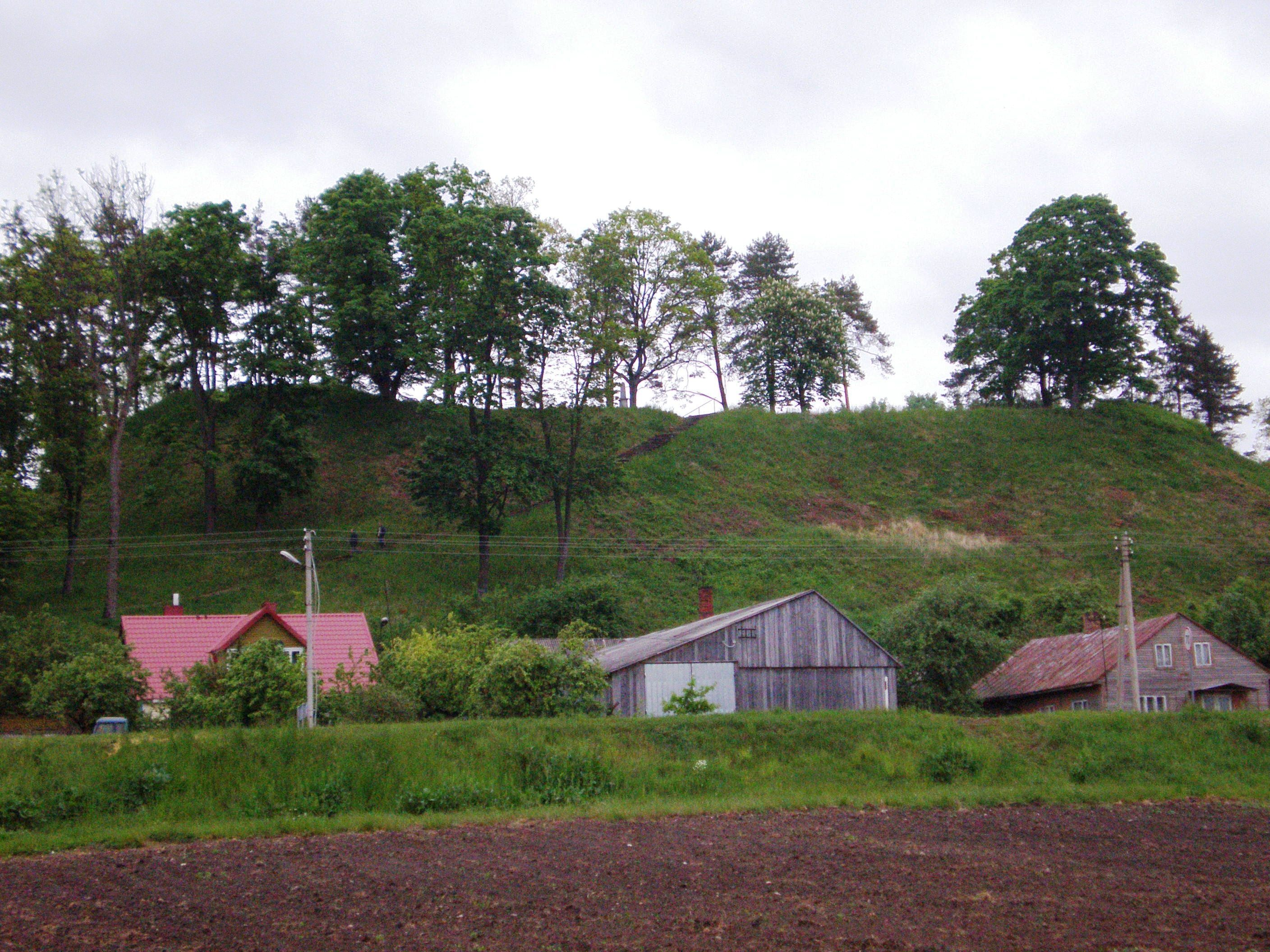 Veliuona castlehill Gedimino kapas